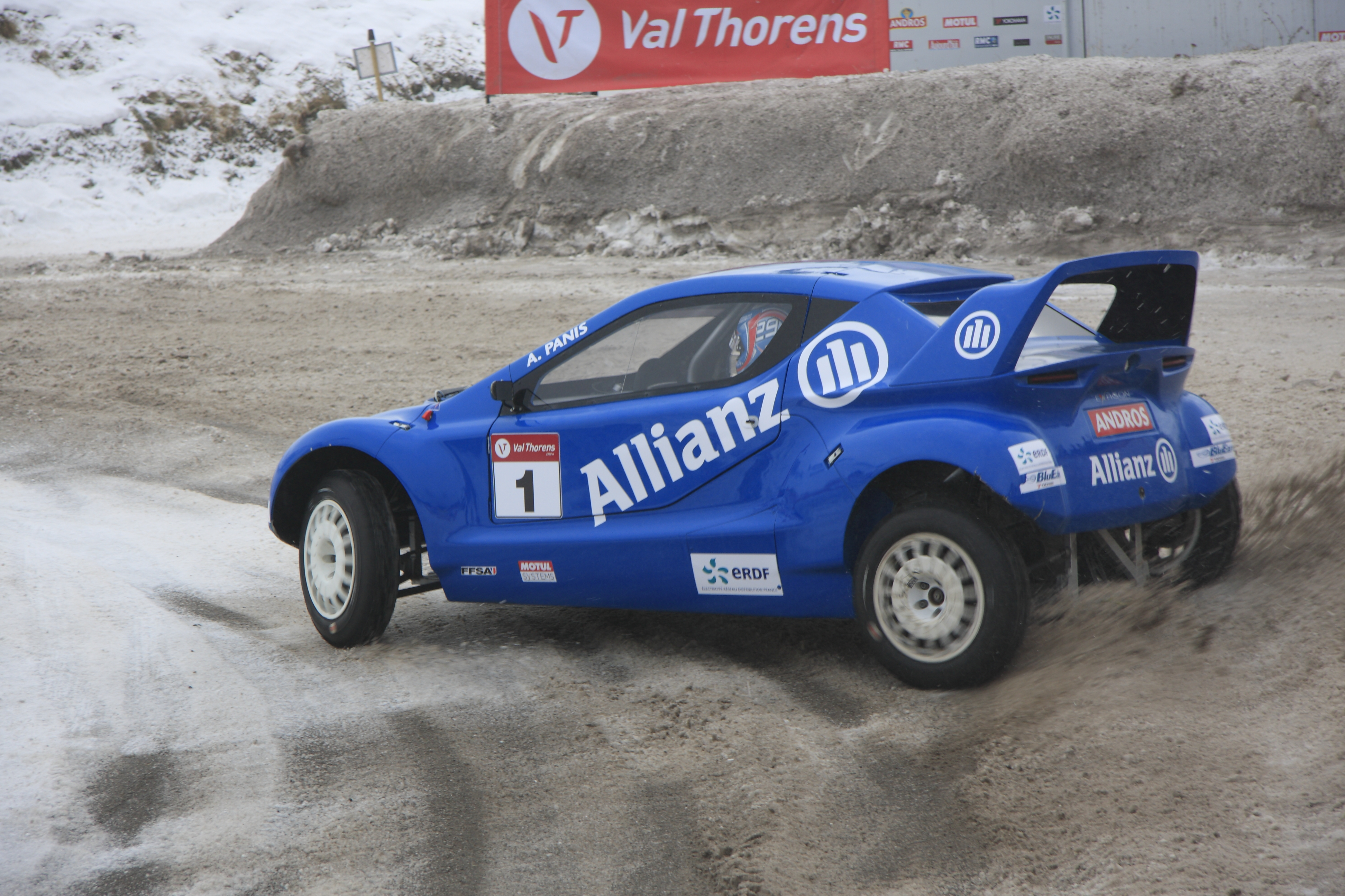 Andros Trophy electric race, during winter 2015 at Val Thorens